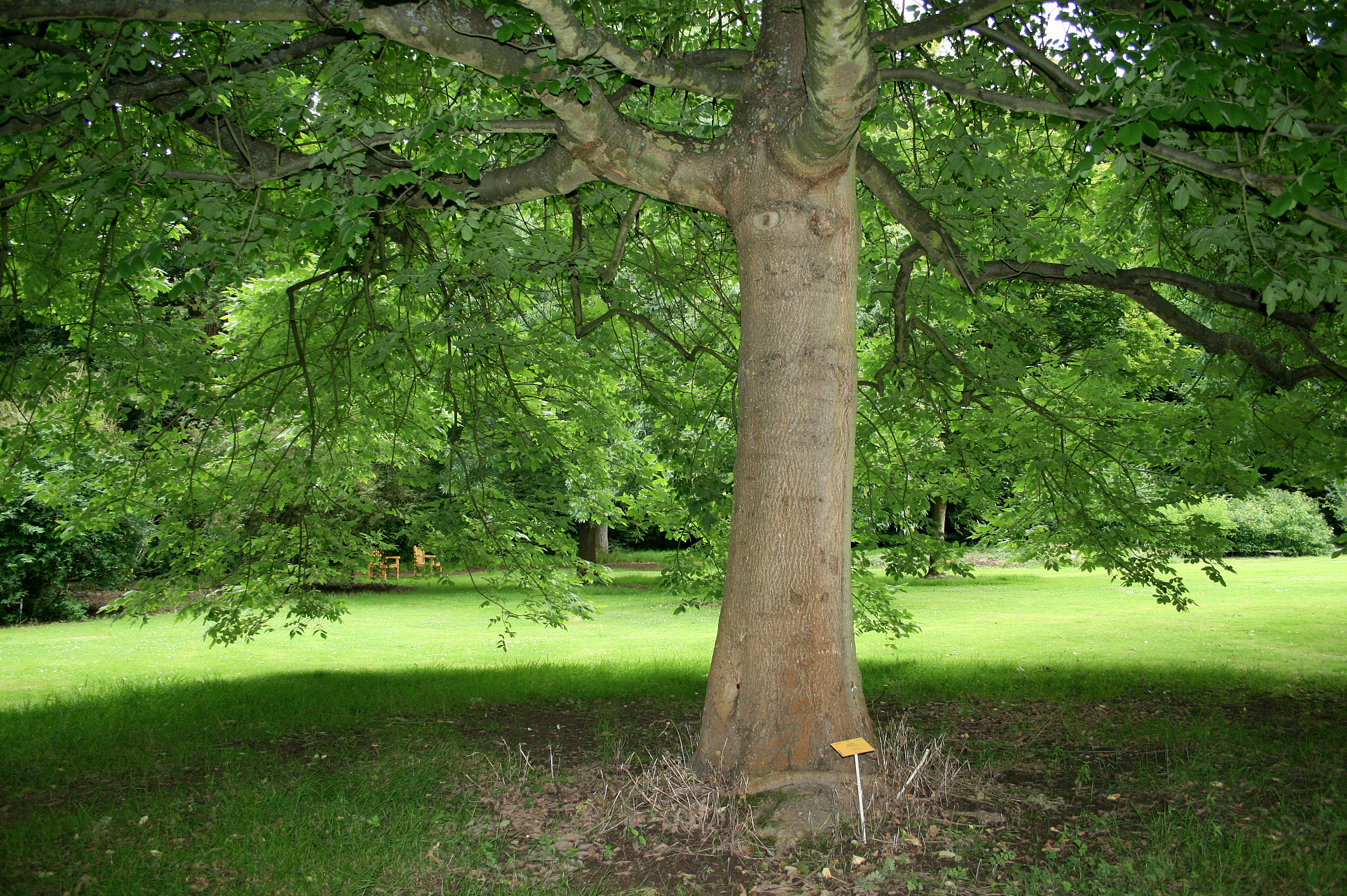 Oregon Ash - Fraxinus latifolia Bent. syn. Fraxinus oregona Nuth. Precice location: National Botanic Garden of Belgium - Meise (Belgium). Walon: Frin.ne di l’Orègon Fraxinus latifolia Bent. syn. Fraxinus oregona Nuth. Place rècta: Jardin botanike national di Bèljike - Meise (Bèljike).